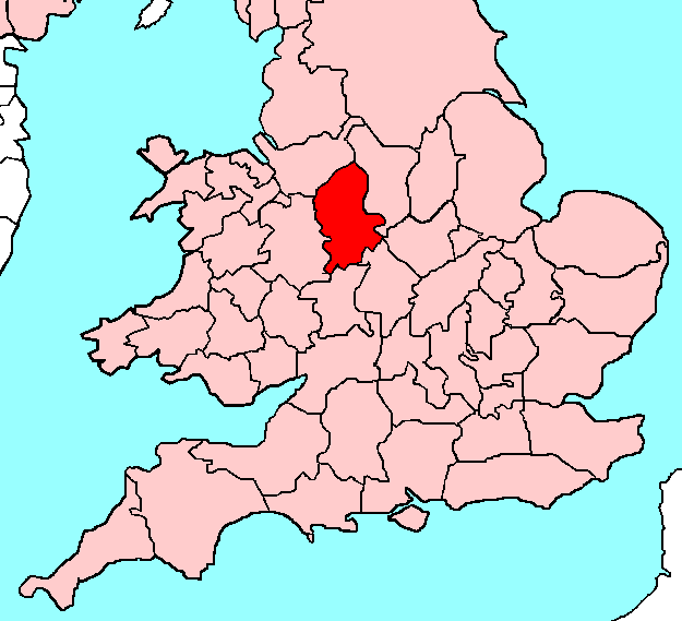 Staffordshire